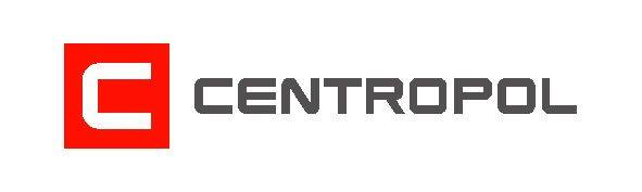 Logo of CENTROPOL Energy